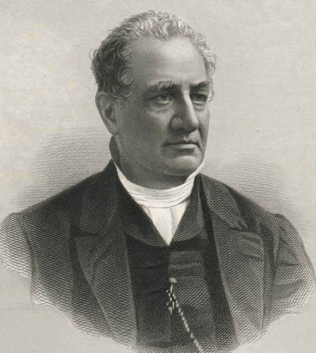 George Washington Blagden (October 3, 1802-December 17, 1884) was an American clergyman. from the Portraits of American Abolitionists 1850-1890 collection of the Massachusetts Historical Society